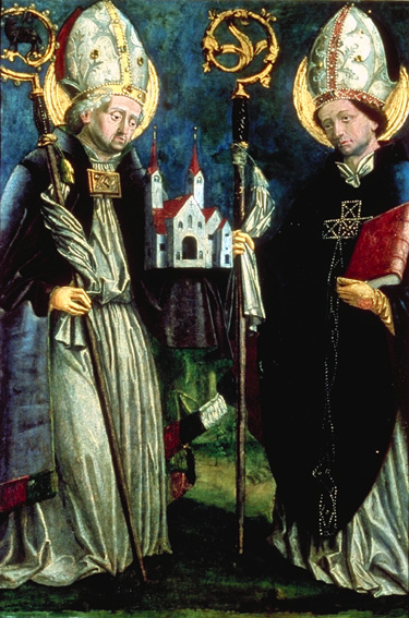 Ingenuin and Albuin, saint bishops in Seben South Tyrol. Ingenuin first, Albuin last. Patrons of Brixen/Bressanone